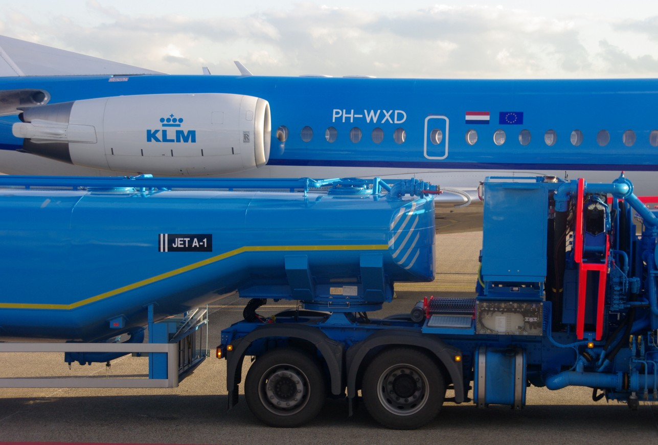 Jet-A1 fueling